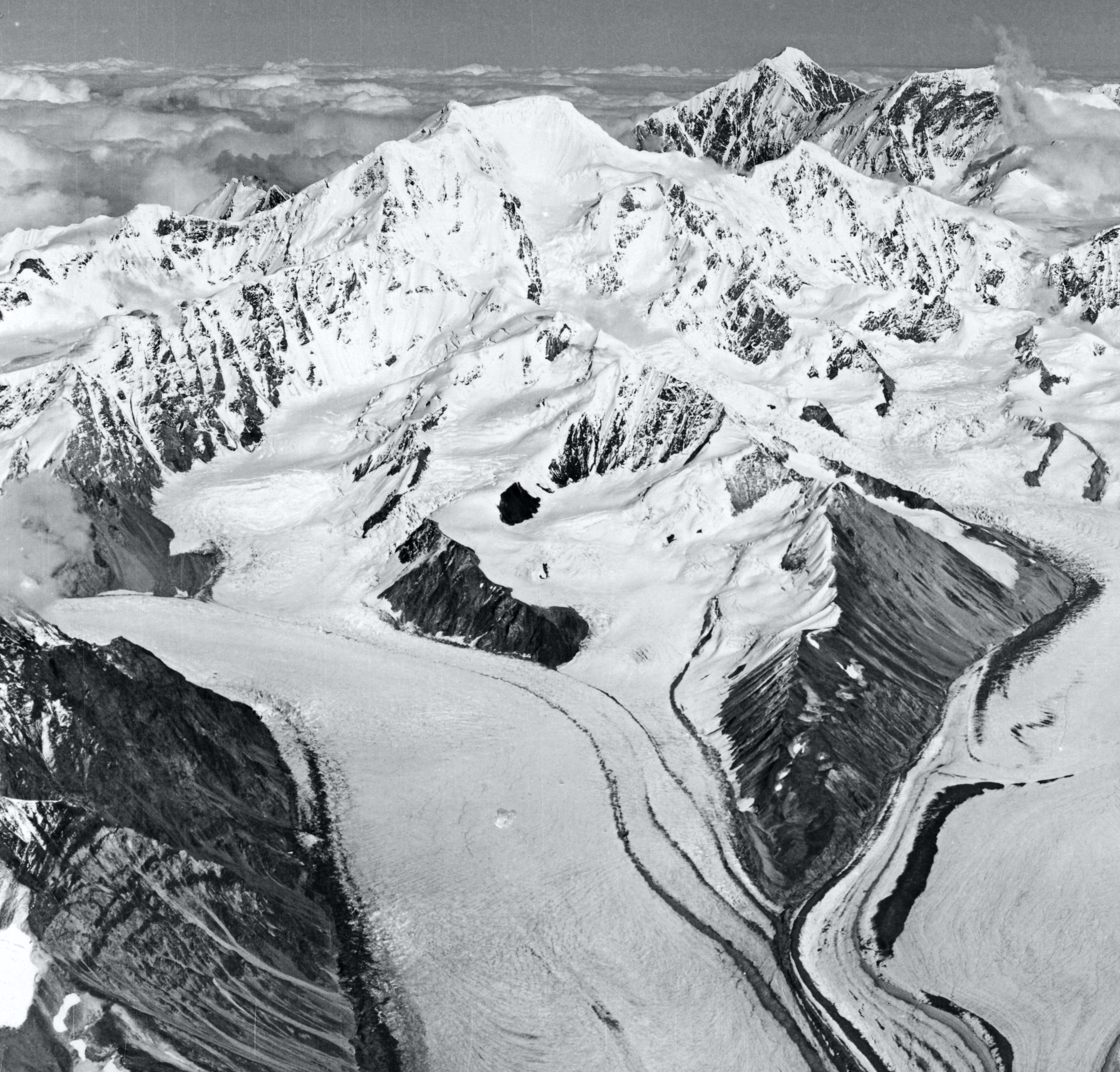 Aerial view of Moby Dick and Sisitna Glacier. In back Mts. Moffit and Shand.